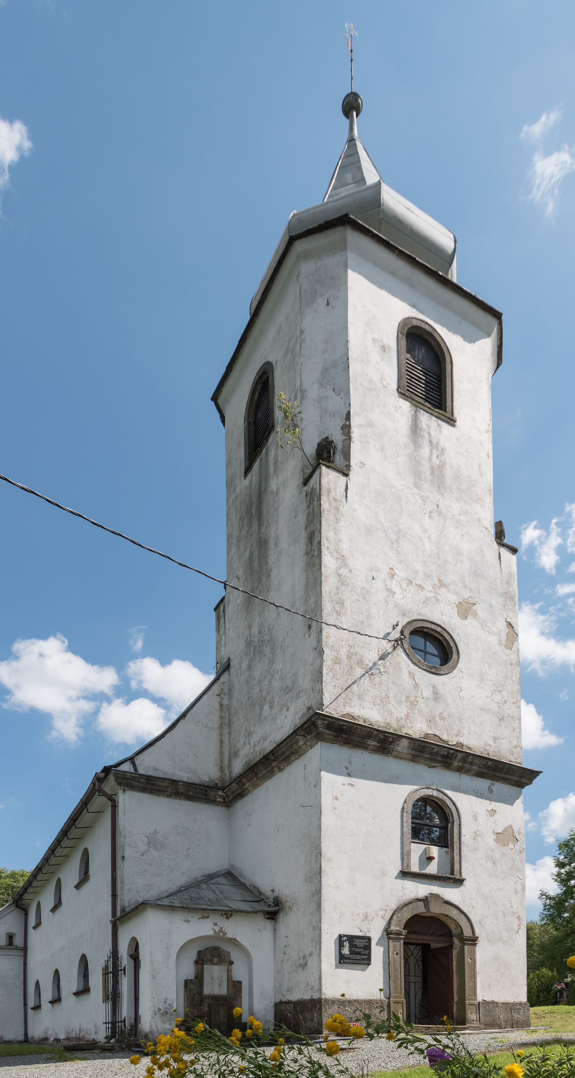 Saint Michael Archangel church in Gniewoszów Wikidata has entry Q30048838 with data related to this item.